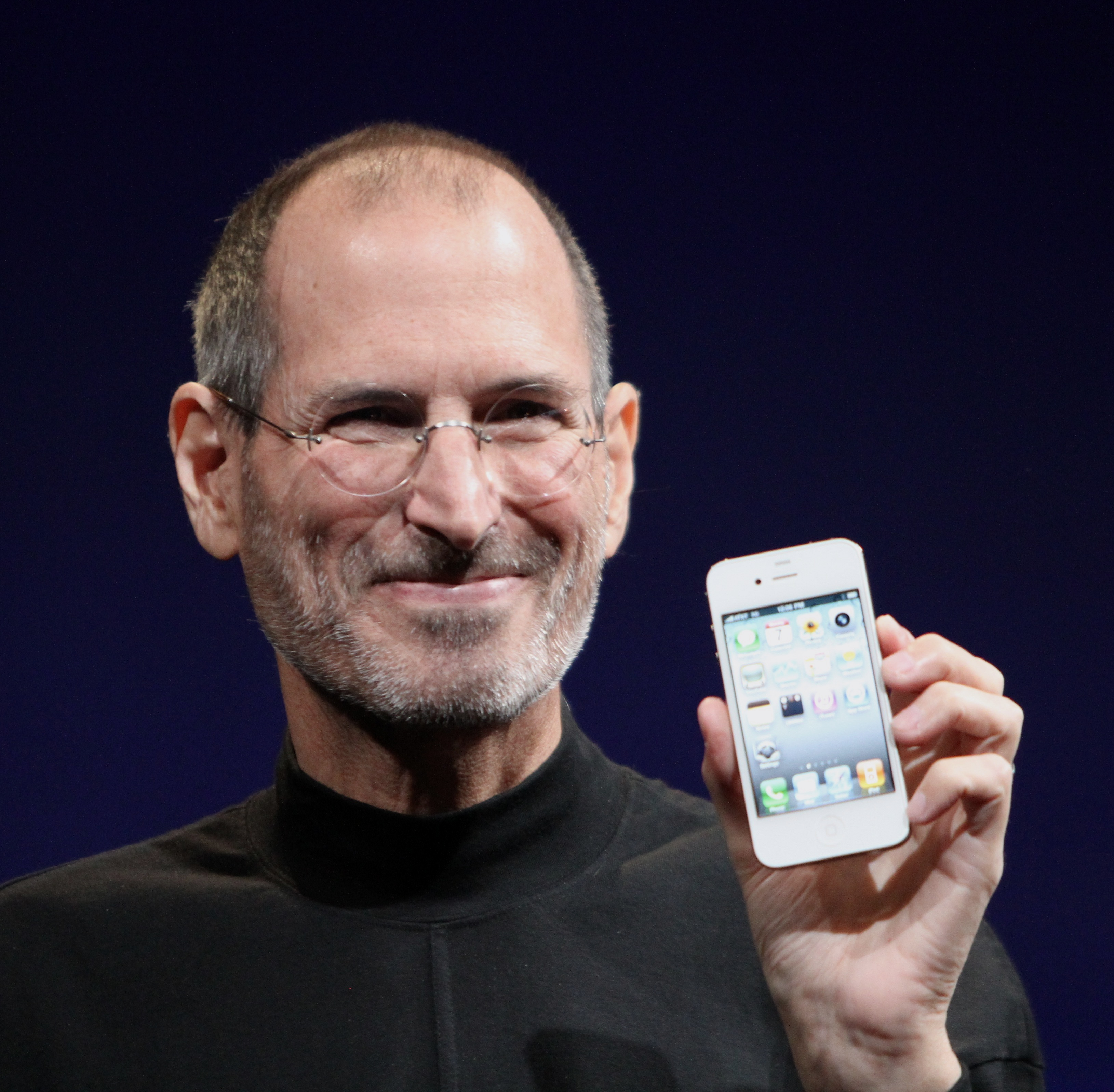 Steve Jobs shows off the iPhone 4 at the 2010 Worldwide Developers Conference.